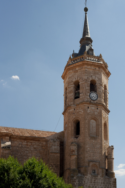 Iglesia de Nuestra Señora de la Asunción; Tembleque, Castilla la Mancha, Toledo, Spain; torre; ref: PM_080148_E_Tembleque; Iglesia de Nuestra Señora de la Asunción; Photographer: Paul M.R. Maeyaert; © Paul M.R. Maeyaert; ; Cultural heritage; Europeana; Europe/Spain/Tembleque (Castilla la Mancha)